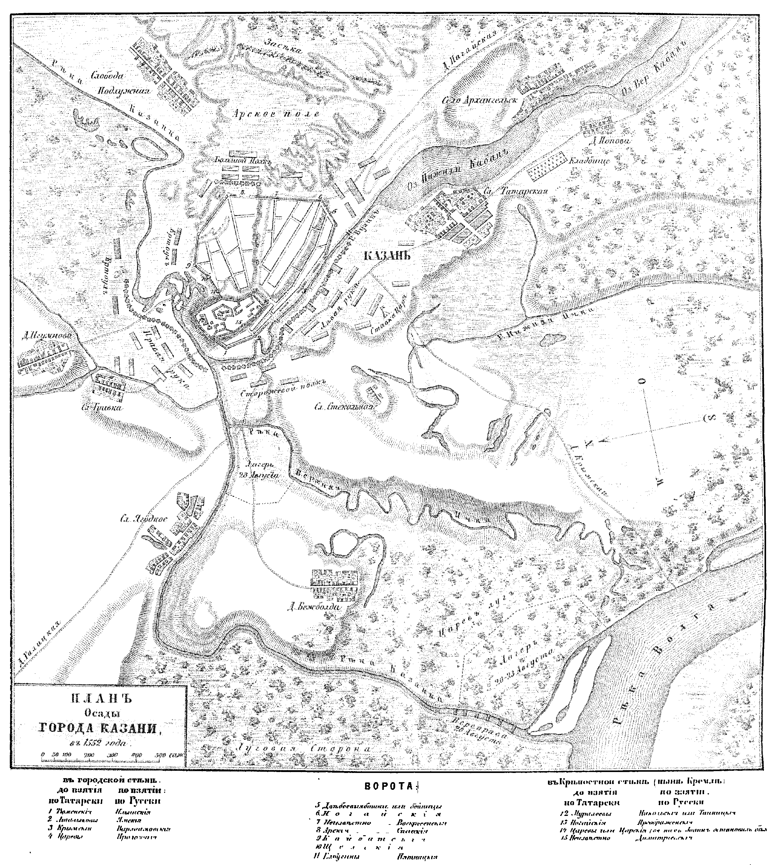 Sieg of Kazan. 1552 year. Ivan the Terrible.